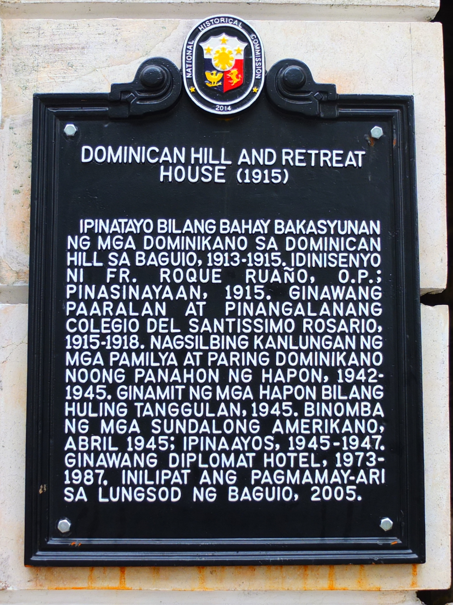 NHCP Marker of Diplomat hotel